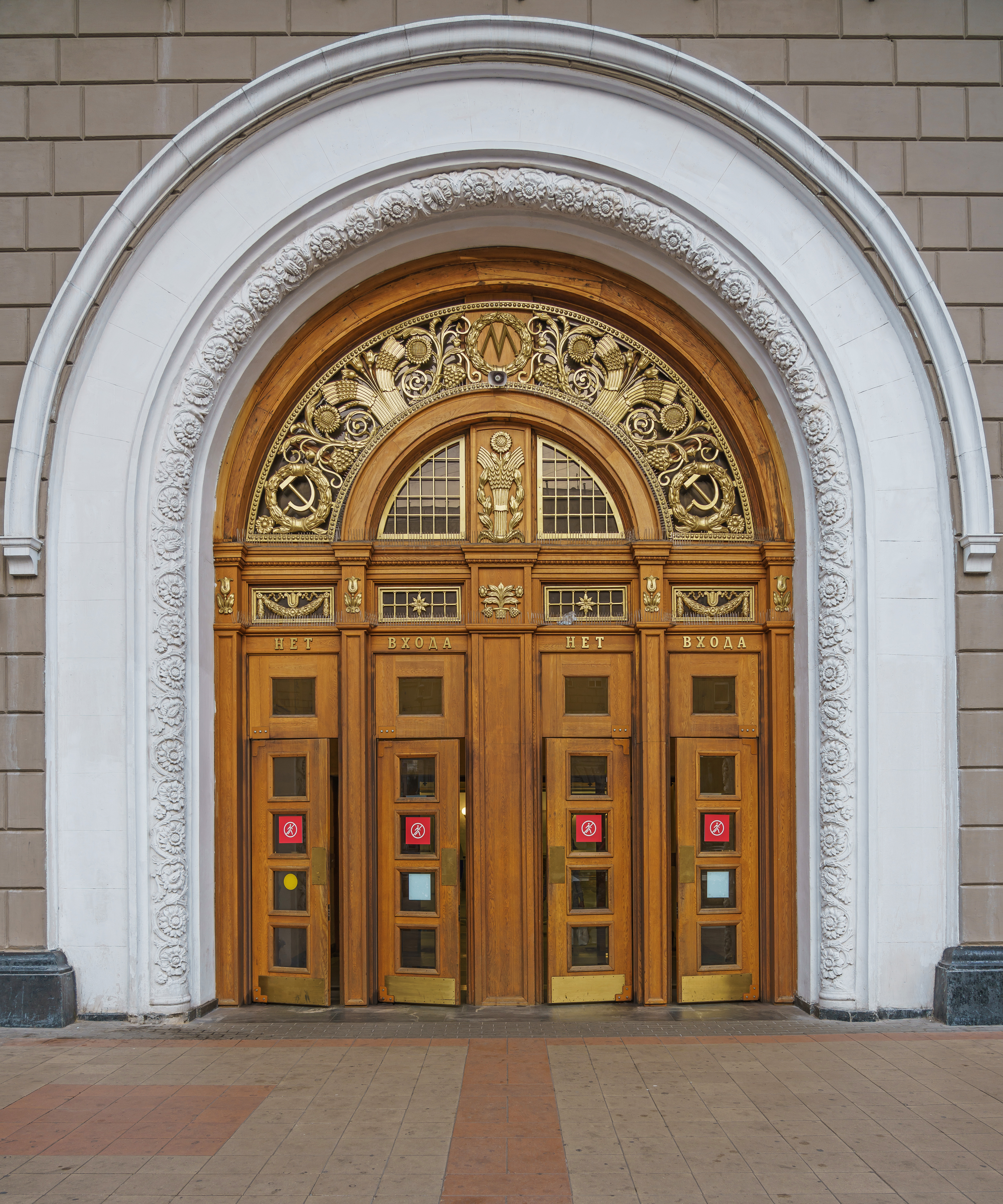 Entrance portals of Prospekt Mira (KL) metro station in Moscow, Russia.